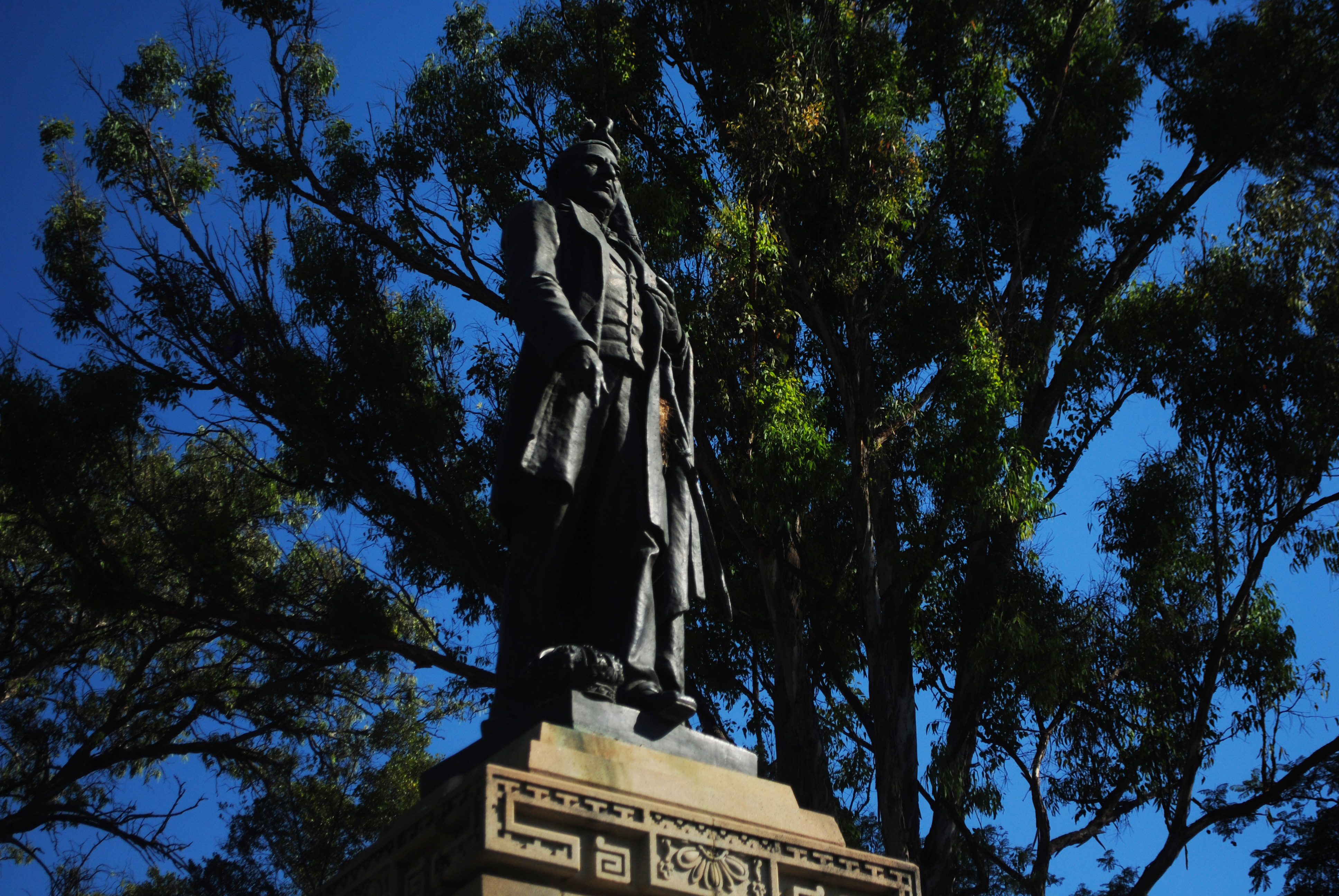 Sculpture of Benito Juárez made in 1894 at Paseo Juárez "El Llano" a public park in the Historic Centre of Oaxaca, one of the oldest of the city. Juárez holds a Mexican flag with one hand and with the other is pointing Maximilian's Imperial Crown of Mexico which remains in the soil, representing the defeat of the Second Mexican Empire.